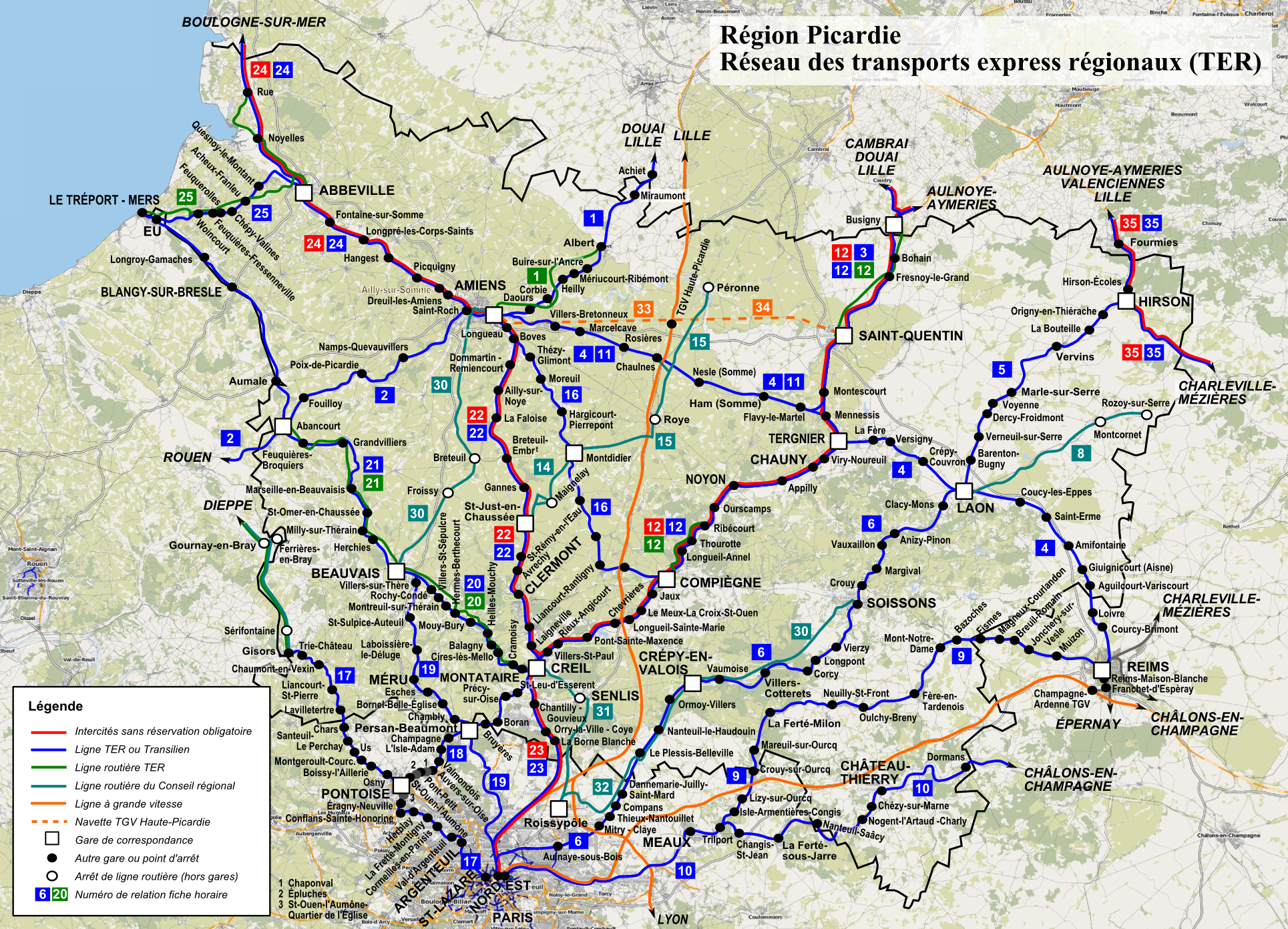 Region Picardie, regional transport network (TER)